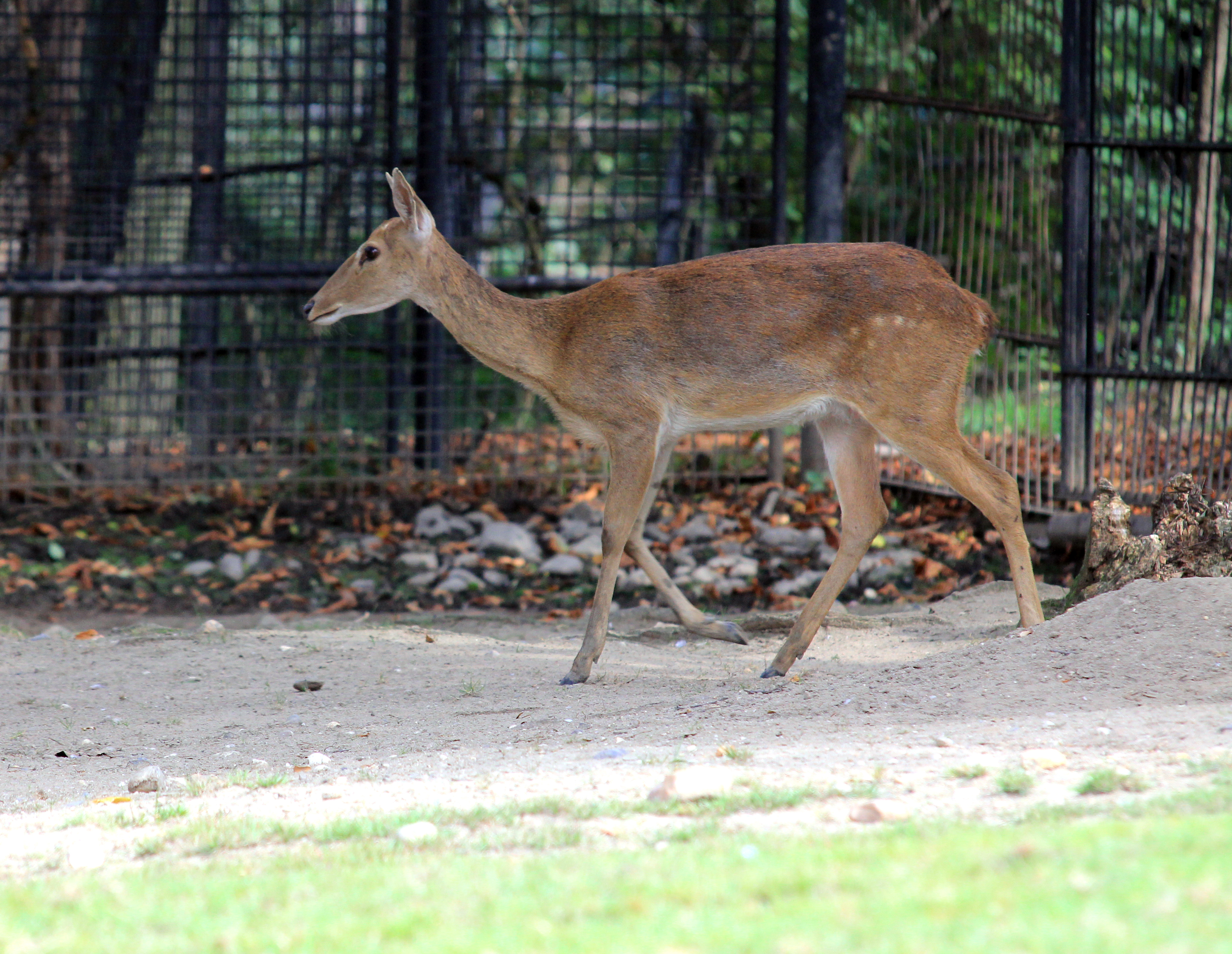 Eld's Deer (Cervus eldii) in Prague Zoo, Czech Republic